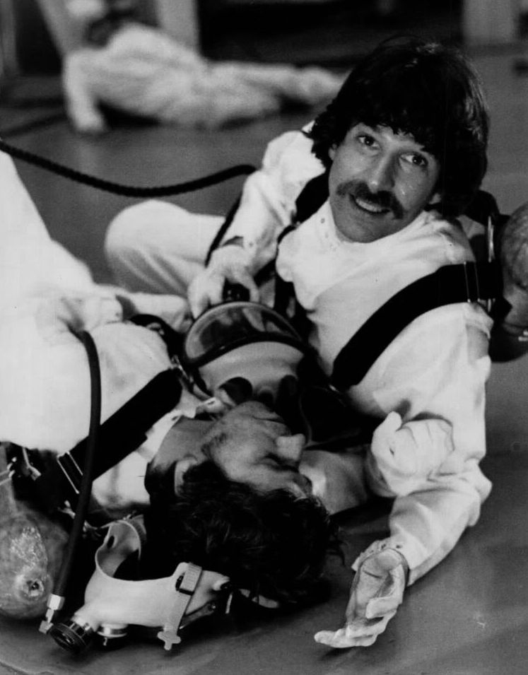 Promotional photo of Michael Brandon (top) and William Devane (bottom) in the made-for-TV adaptation of the novel Red Alert